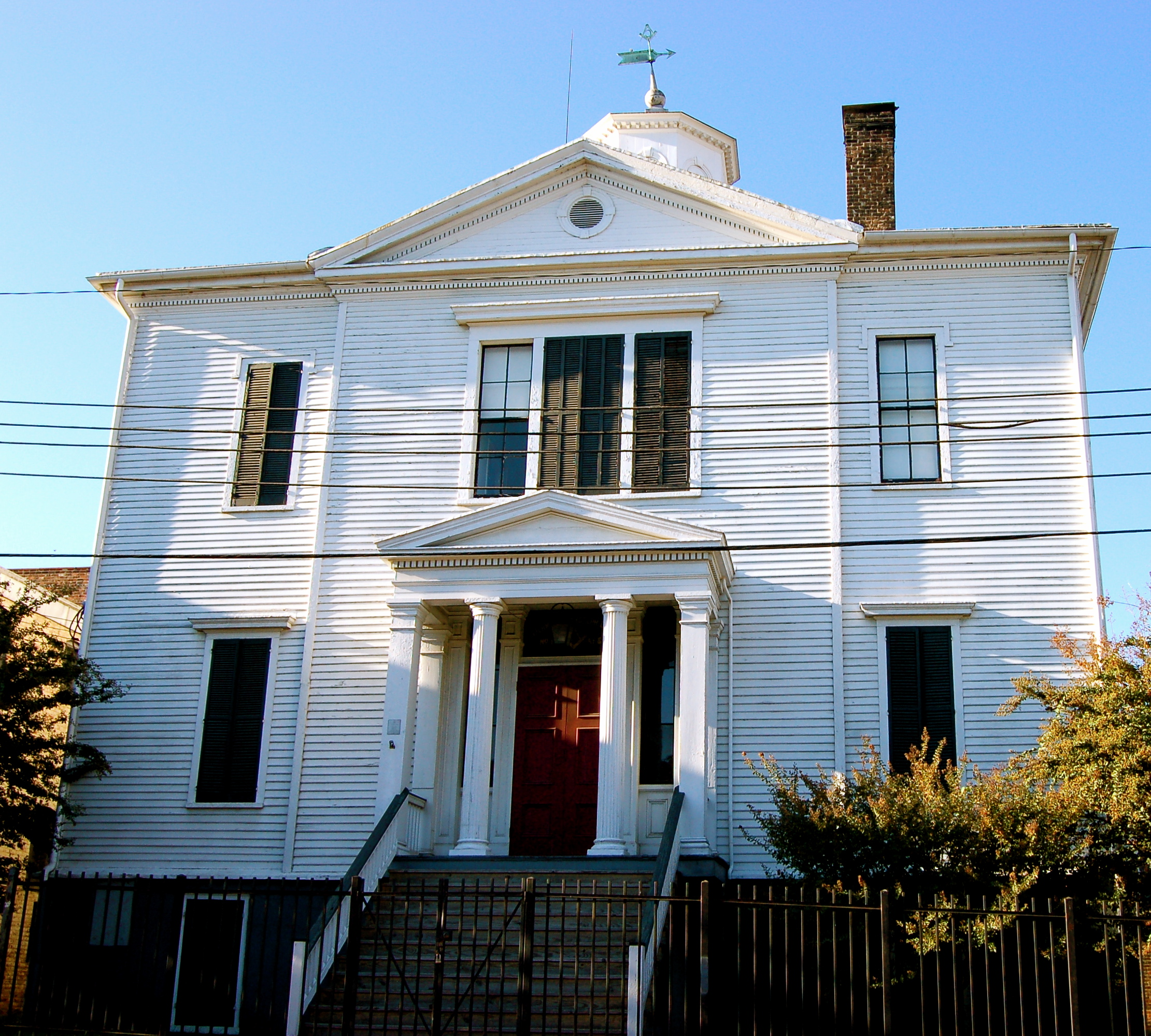 "Masonic Hall, 1805 E Franklin Street. Used by the Confederate government as a hospital facility in 1861 and again in 1862. Shockoe Bottom; Richmond VA" - original caption at Flickr